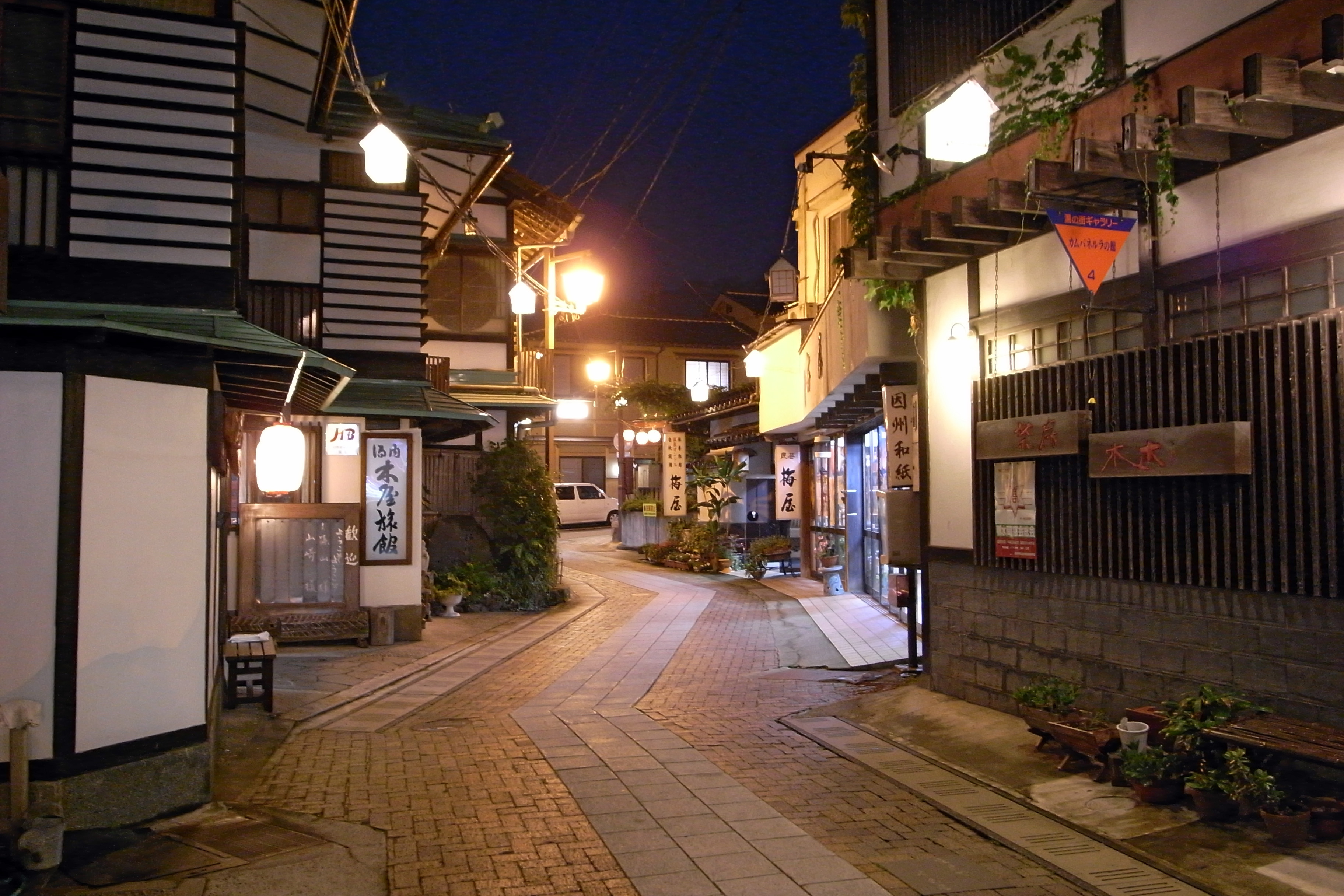 Misasa Onsen in Misasa, Tottori prefecture, Japan